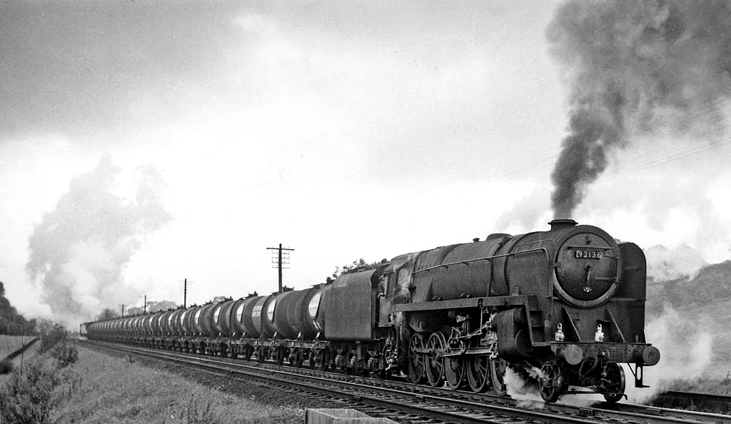 Heavy oil train ascending Lickey Bank, near to Blackwell, Worcestershire, Great Britain. View SE, down the Lickey Bank (two miles at 1-in-37) towards Bromsgrove; ex-Midland Birmingham - Bristol main line. This was one of the heaviest trains worked up this formidable incline, a loaded oil train from Fawley (Hants.) to Bromford Bridge (Birmingham). Headed by BR Standard 9F 2-10-0 No. 92136, pounding up at 10-15 mph with no less than four GW 94XX 0-6-0Ts at the rear, it made a thrilling sight - and sound.